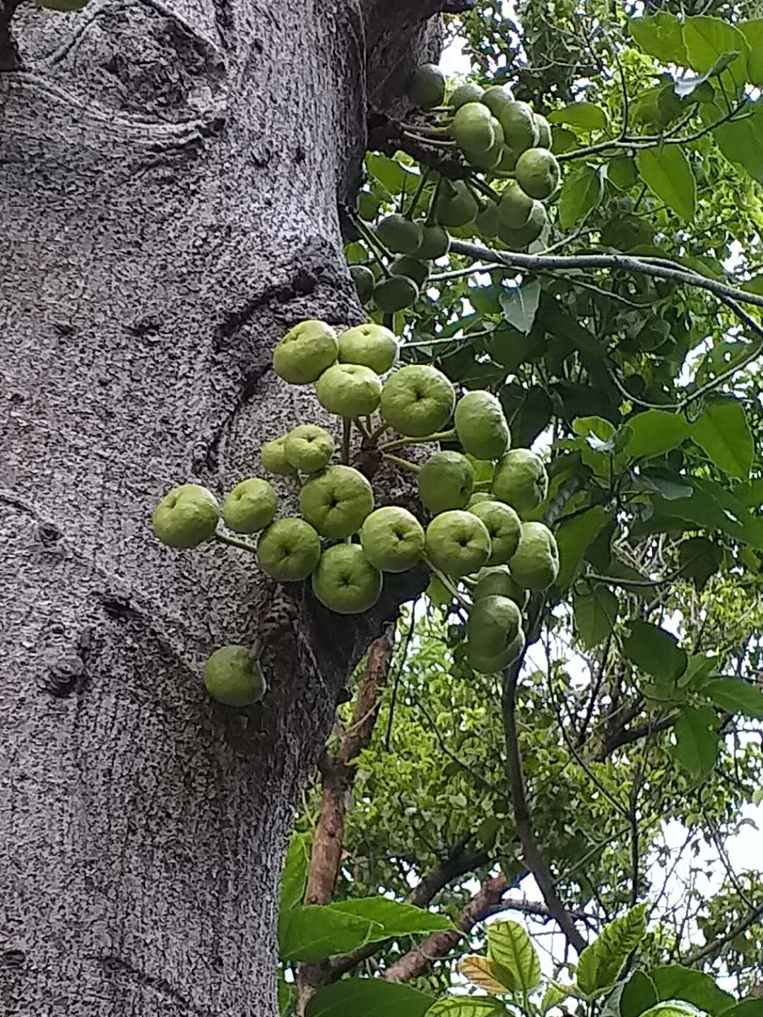 Syconium of Ficus auriculata. Taichung Botanical Garden, Taiwan.